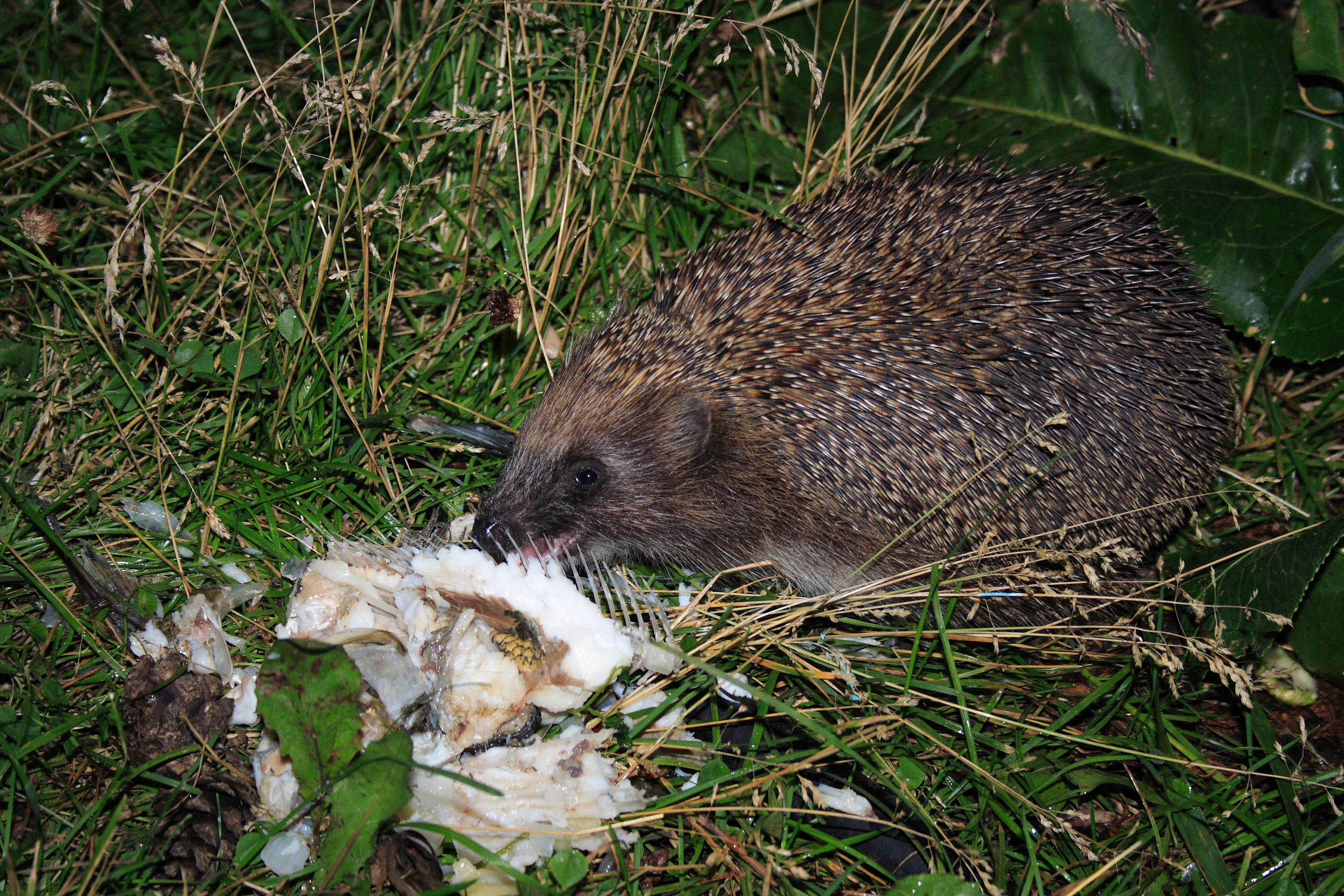 Erinaceus europaeus in Altai krai